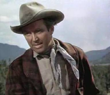 Screenshot of James Stewart from the film The Naked Spur (1953)